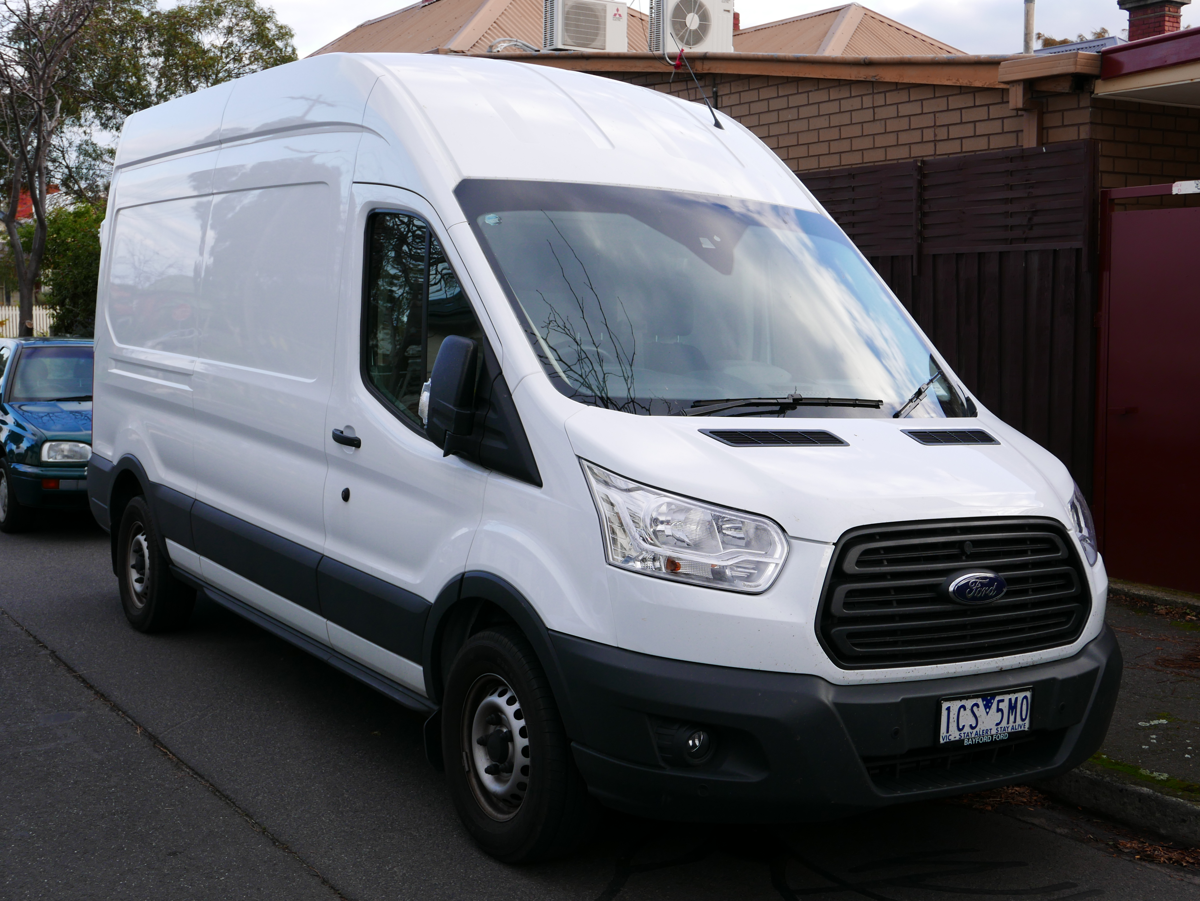 2014 Ford Transit (VO) 350E van. Photographed in Northcote, Victoria, Australia. Vehicle registration enquiry resultsJurisdictionVictoriaRegistration1CS5MOChassis codeWF0XXXTTGXES81809Engine codeCVRCES81809Compliance date2014-05Year of manufacture2014